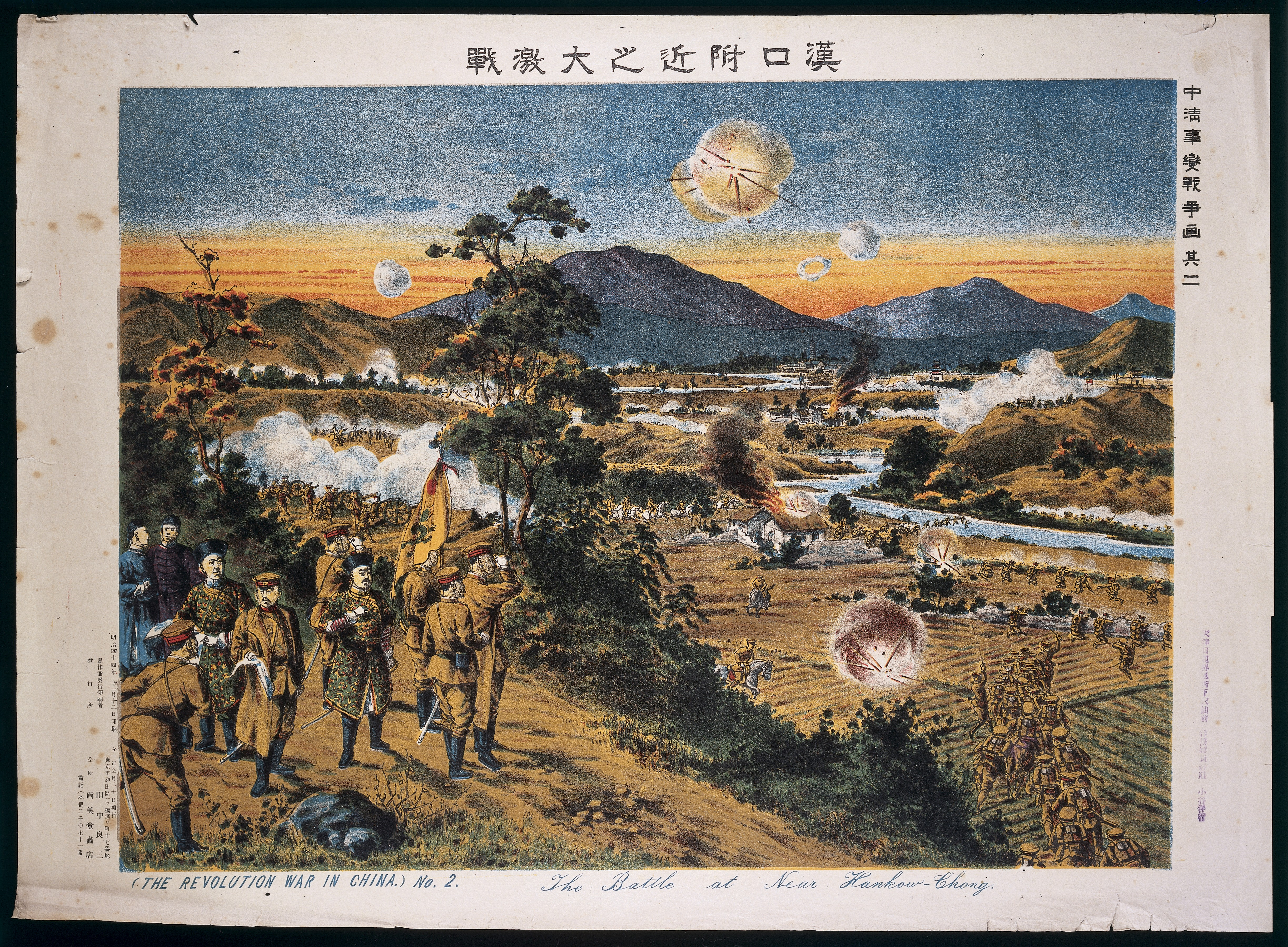 An episode in the revolutionary war in China, 1911: a battle near Hankow, from the Imperial side. Iconographic Collections Keywords: Revolution; Chinese Revolution; Military History; Fighting; China; Battles; T. Miyano; Xinhai Revolution; Manchu (Qing) Dynasty